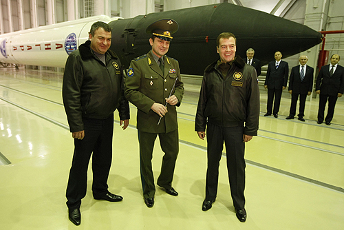 PLESETSK SPACE LAUNCH CENTRE, ARKHANGELSK REGION. In the test-assembly frame of the Soyuz-2 space rocket.